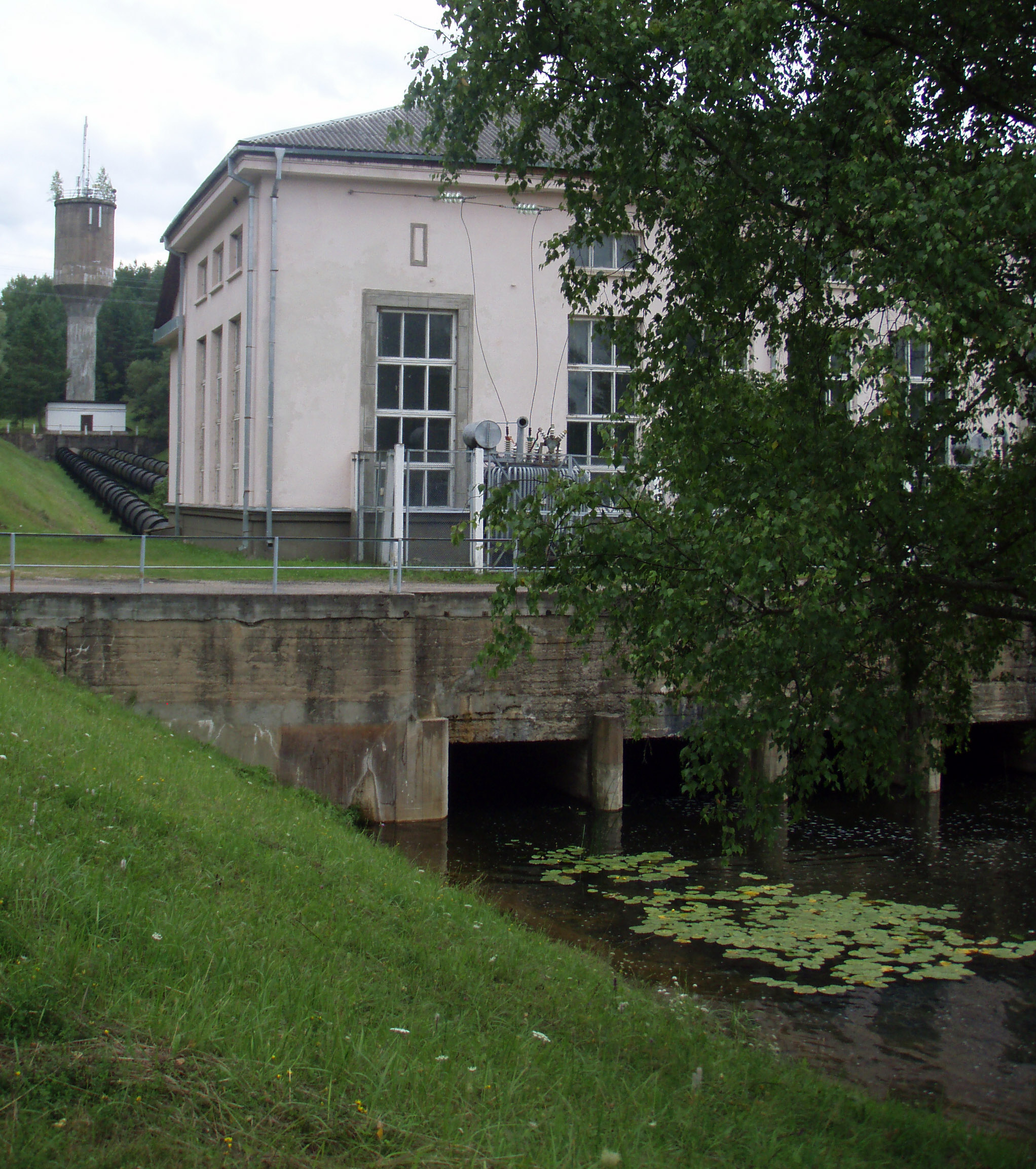 Hydroelectric power plant in Antalieptė, Lithuania